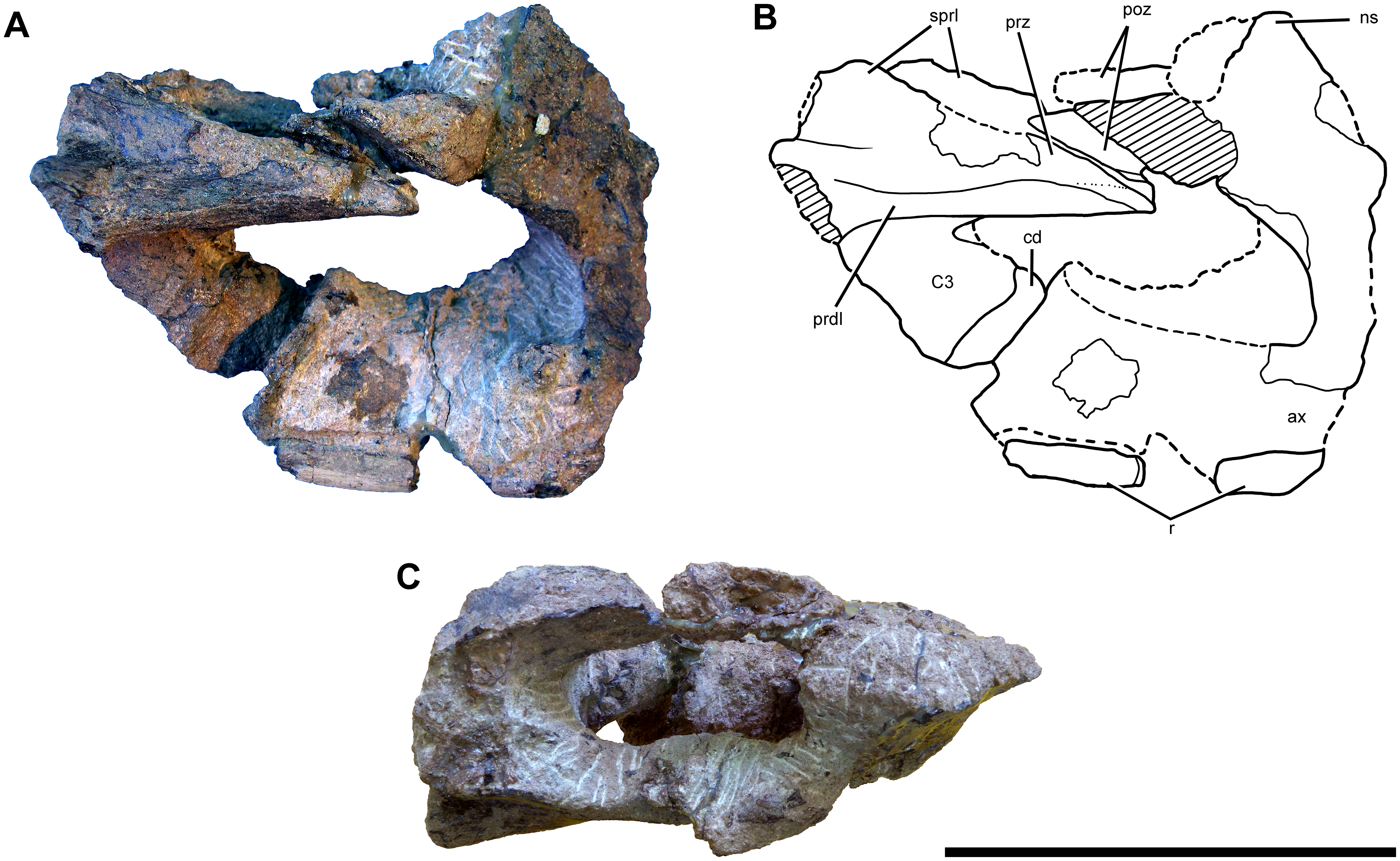 Articulated partial axis and cervical vertebra 3 of Sarmientosaurus musacchioi gen. et sp. nov. Photographs (A, C) and interpretive drawing (B) in right lateral (A, B) and dorsal (C) views. Abbreviations see text. Scale bar = 10 cm.